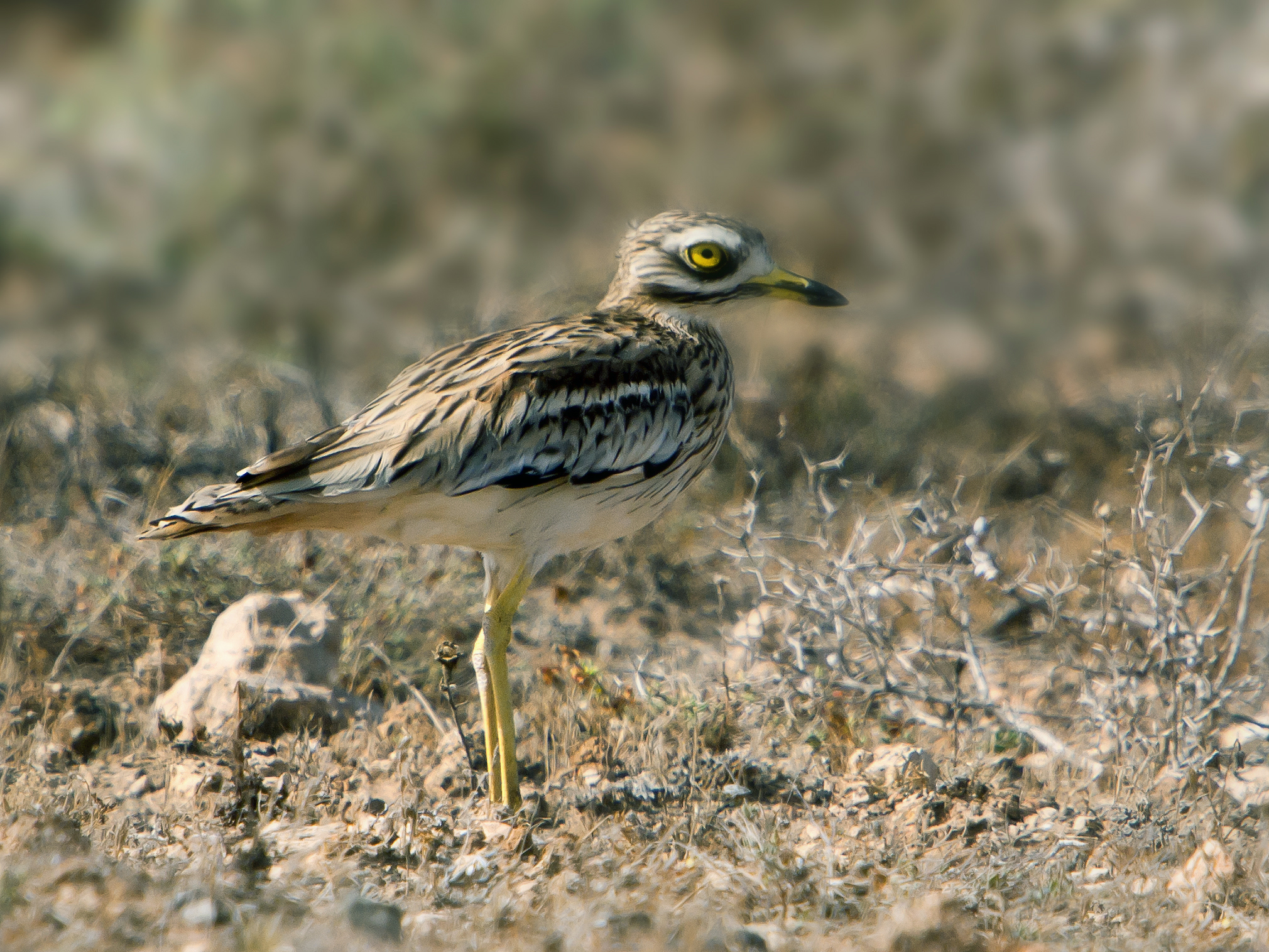 Eurasian Stone-curlew Burhinus oedicnemus insularum, Lanzarote, Canary Islands